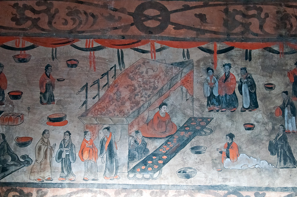 The Dahuting Tomb (Chinese: 打虎亭汉墓, Pinyin: Dahuting Han mu; Wade-Giles: Tahut'ing Han mu) of the late Eastern Han Dynasty (25-220 AD), located in Zhengzhou, Henan province, China, was excavated in 1960-1961 and contains vault-arched burial chambers decorated with murals showing scenes of daily life. For further information, see the Baidu article (in Chinese): 打虎亭汉墓. Click here for more pictures and a step-by-step walkthrough of the tomb, from the outside, down a stairwell, and through the vaulted burial chambers.